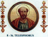 Portrait of Pope Telesphorus in the Basilica of Saintr Paul Outside the Walls, Rome